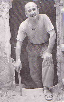 Photo of Pedro Gilabert, Spanish sculptor.